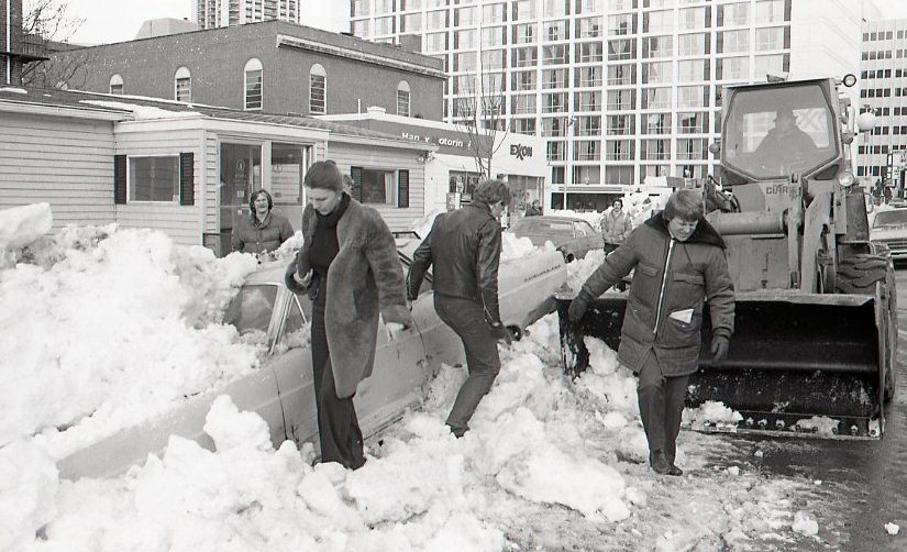 Title: Car in snow bank after blizzard Creator: City of Boston - Mayor's Office Date: 1978 February Source: Mayor Kevin White photographs, Collection # 0245.002, Chronological file File name: white-1978-02-105 Rights: Copyright City of Boston Citation: Mayor Kevin White photographs, Collection # 0245.002, Chronological file, 1978 February: Blizzard, City of Boston Archives, Boston